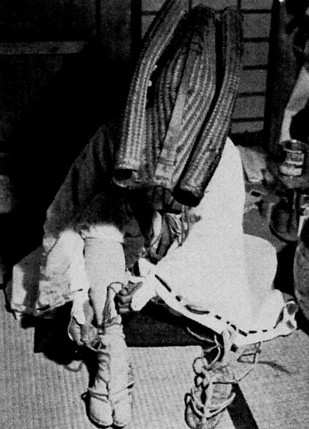 Gyoja wearing a renge-gasa